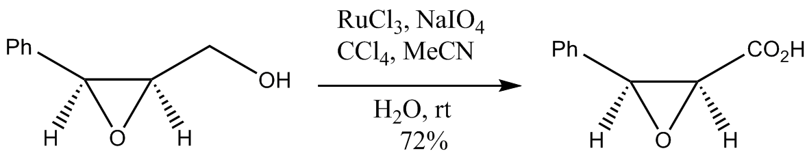 Reaction drawn in Chemdrawn by me.